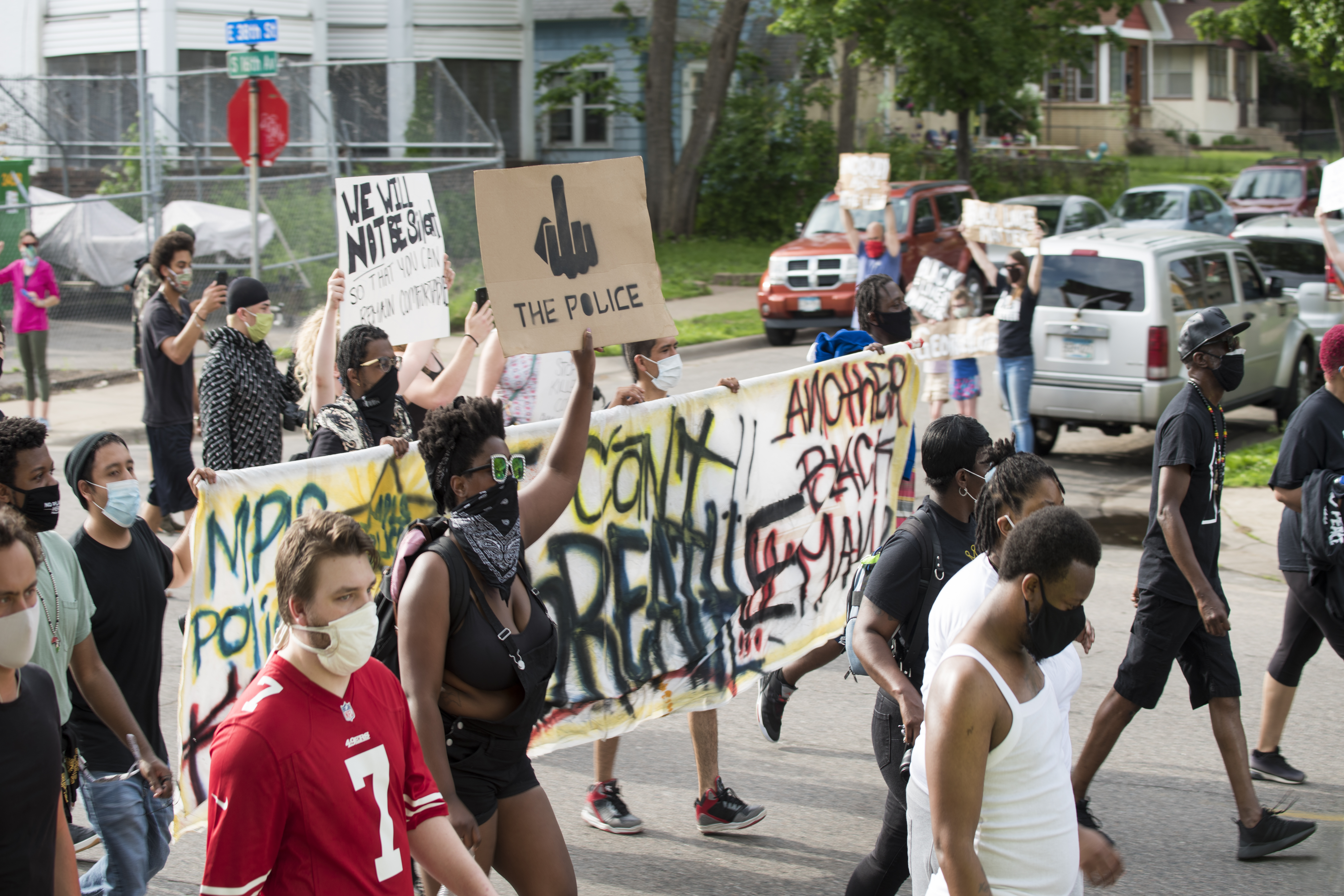 Minneapolis, Minnesota May 26, 2020 Thousands gathered on foot and in cars in south Minneapolis to protest against police violence and call for justice for George Floyd. On May 25, Minneapolis Police officers arrested George Floyd, handcuffed him, then put a knee on his neck as he said he wasn't able to breath. George Floyd appeared to stop breathing and died soon after. Protesters met in the area of Chicago Avenue and 38th Street, but many blocks in the area had people with signs while others drove by protesting from their cars. People marched east on 38th Street and some worked their way to the Minneapolis 3rd precinct building where there were clashes with police after dark. 2020-05-26 This is licensed under the Creative Commons Attribution License. Give attribution to: Fibonacci Blue